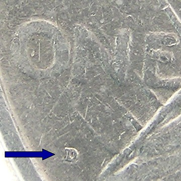 Closeup of a Peace Dollar with an arrow indicating the positioning of the mintmark.